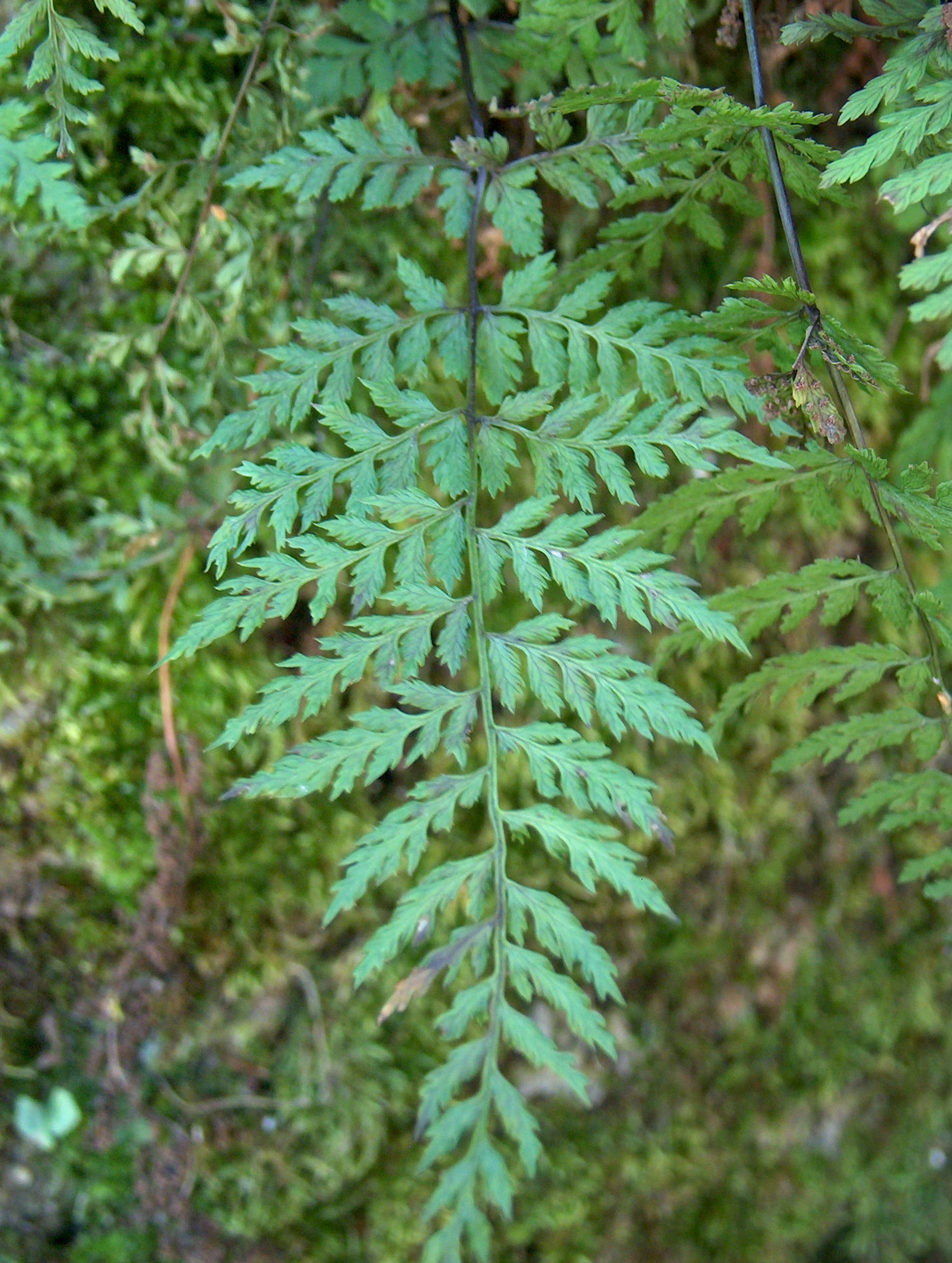 Cystopteris fragilis, Brittle bladderfern - Linz, Austria